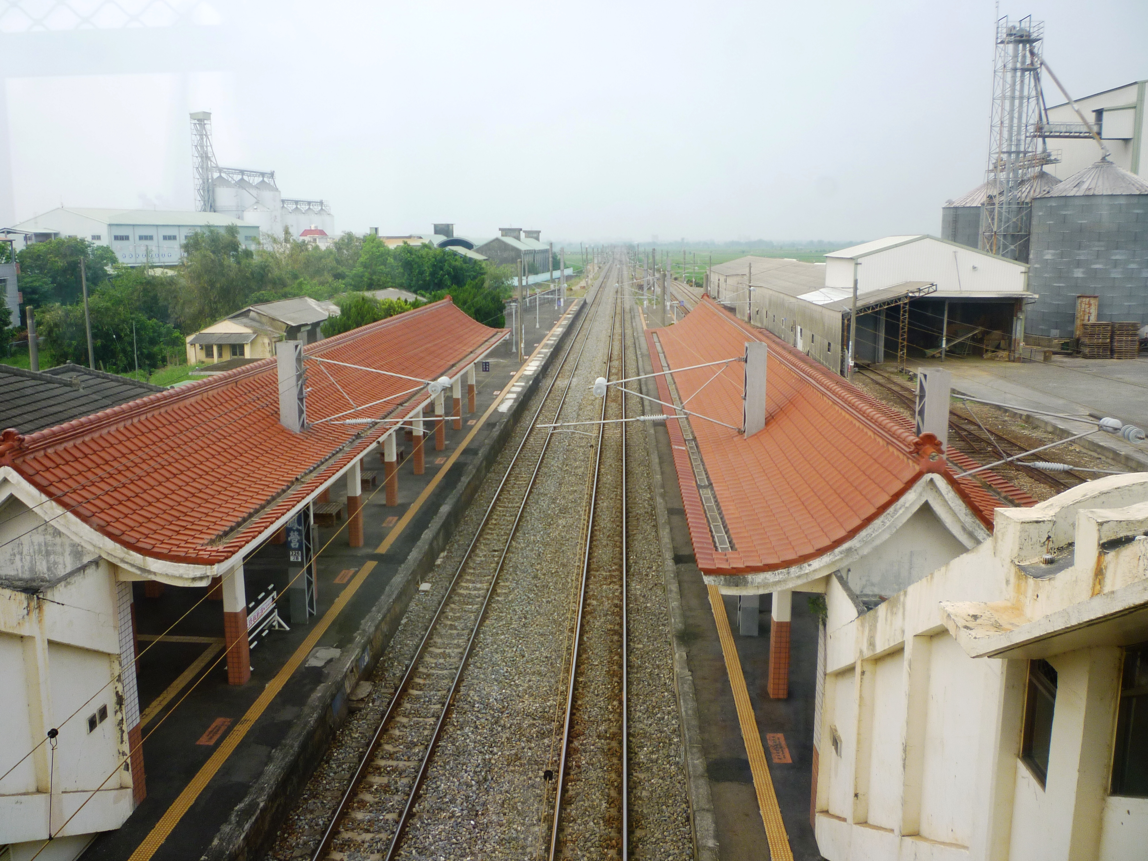 TRA Linfongying Station, looking north from the footbridge over the platforms. 中文（台灣）: 臺灣鐵路管理局林鳳營車站，從人行天橋往北俯瞰月台。